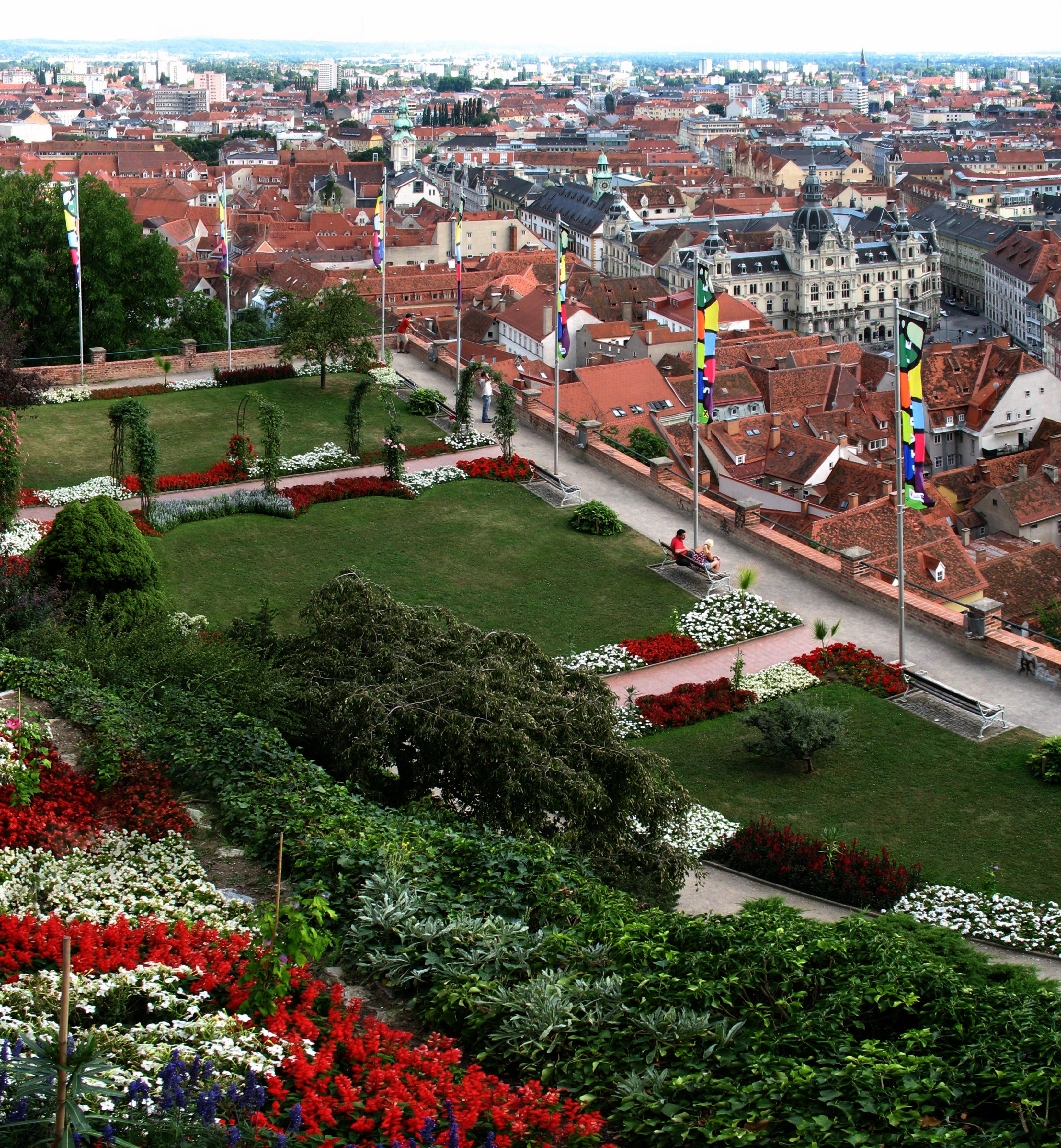 View from Castle Hill, Graz, Austria